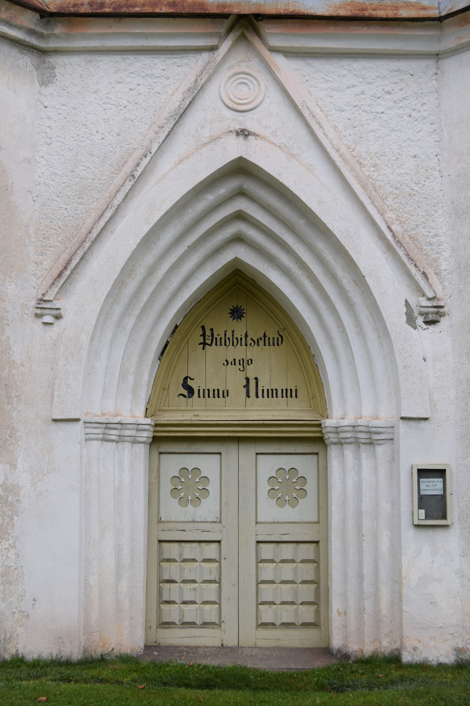 Portal of Piirsalu church